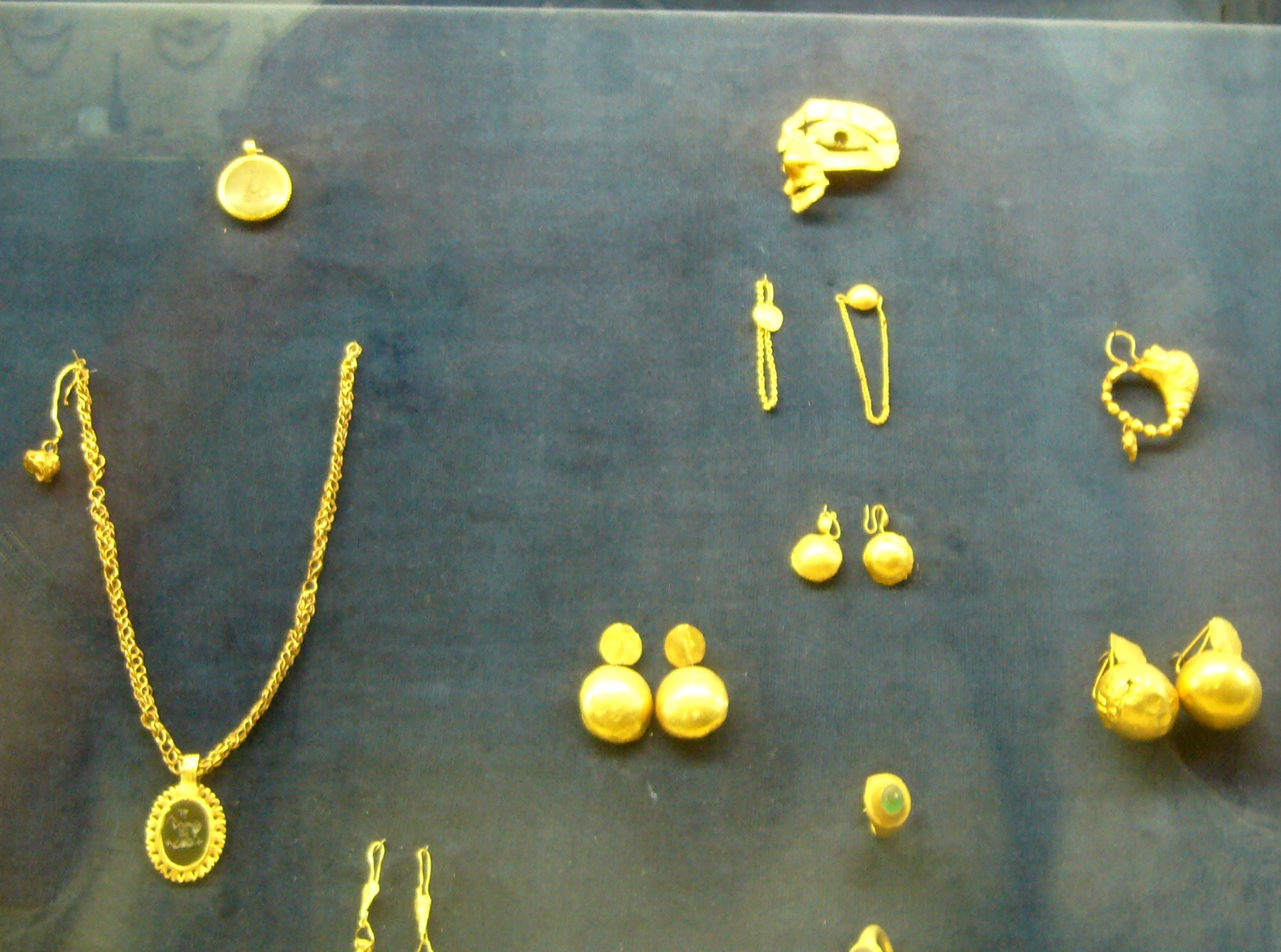 Golden jewelry collection from the royal tombs of Salamis, Cyprus. Archaeological Museum, Nicosia, Cyprus